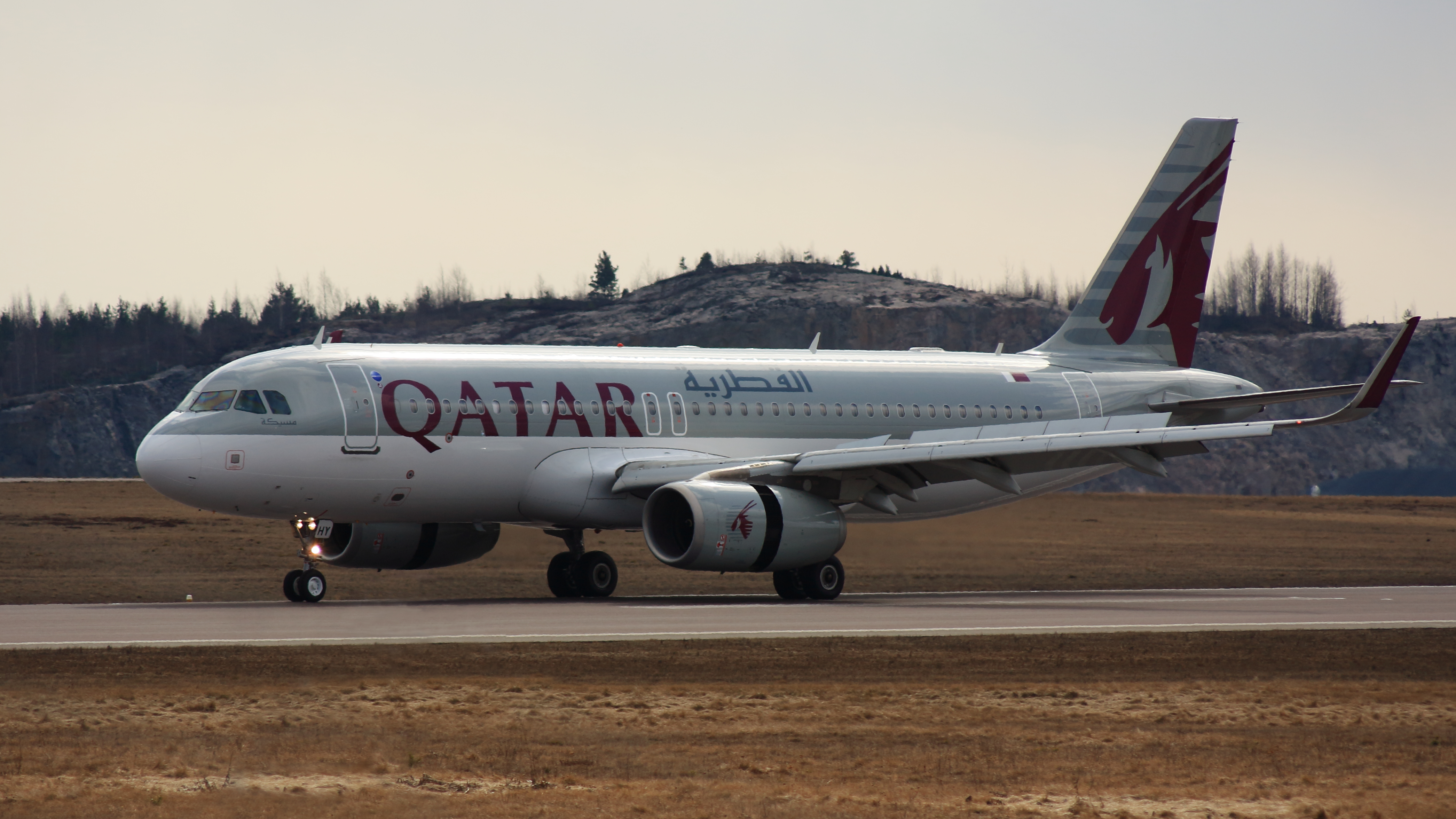 Qatar Airways Airbus A320 A7-AHY flight QR301 (DOH-HEL) landing Helsinki-Vantaa Airport rwy 04L. Nikkor-Q Auto 200mm f/4 w. EOS AF adapter. Manual aperture f8 or f5.6.